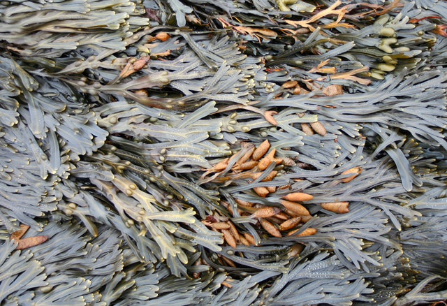 Seaweed on the rocks Seaweed at Seaton Point.